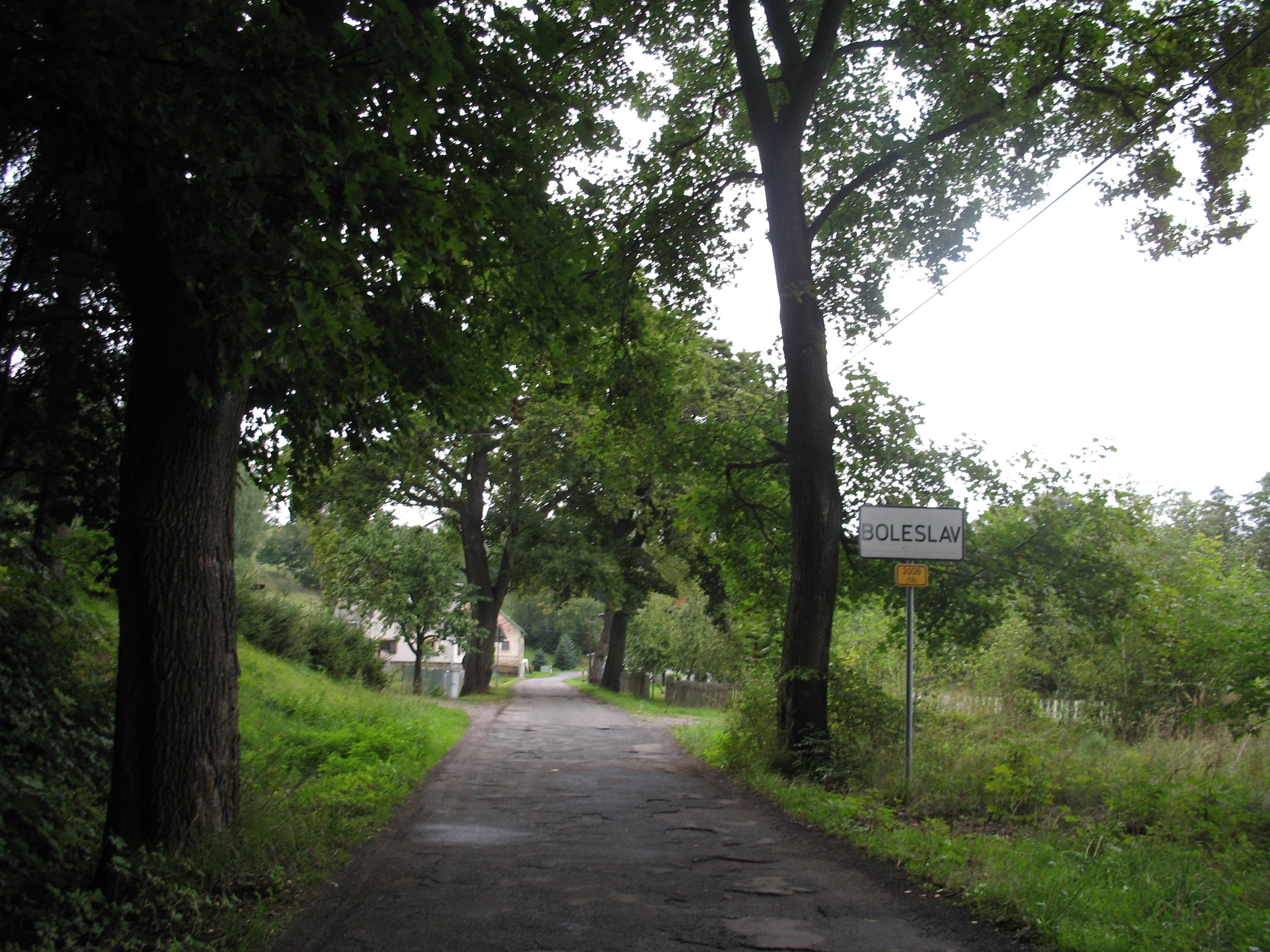 Village of Boleslav, Černousy municipality, Liberec District, Czech Republic